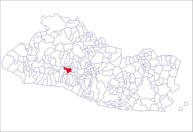 Map of San Salvador